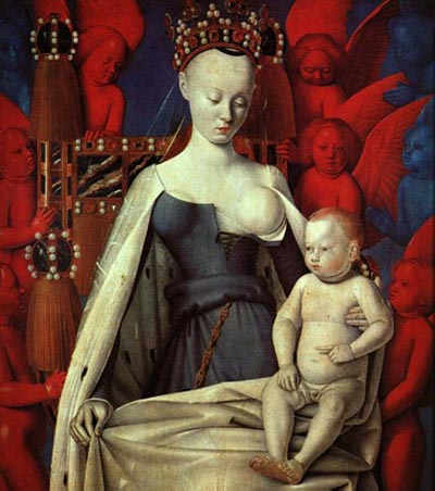 Madonna Surrounded by Seraphim and Cherubim. Right wing of the Melun Diptych. The model for the Virgin seems to have been Agnès Sorel, mistress of King Charles VII of France..